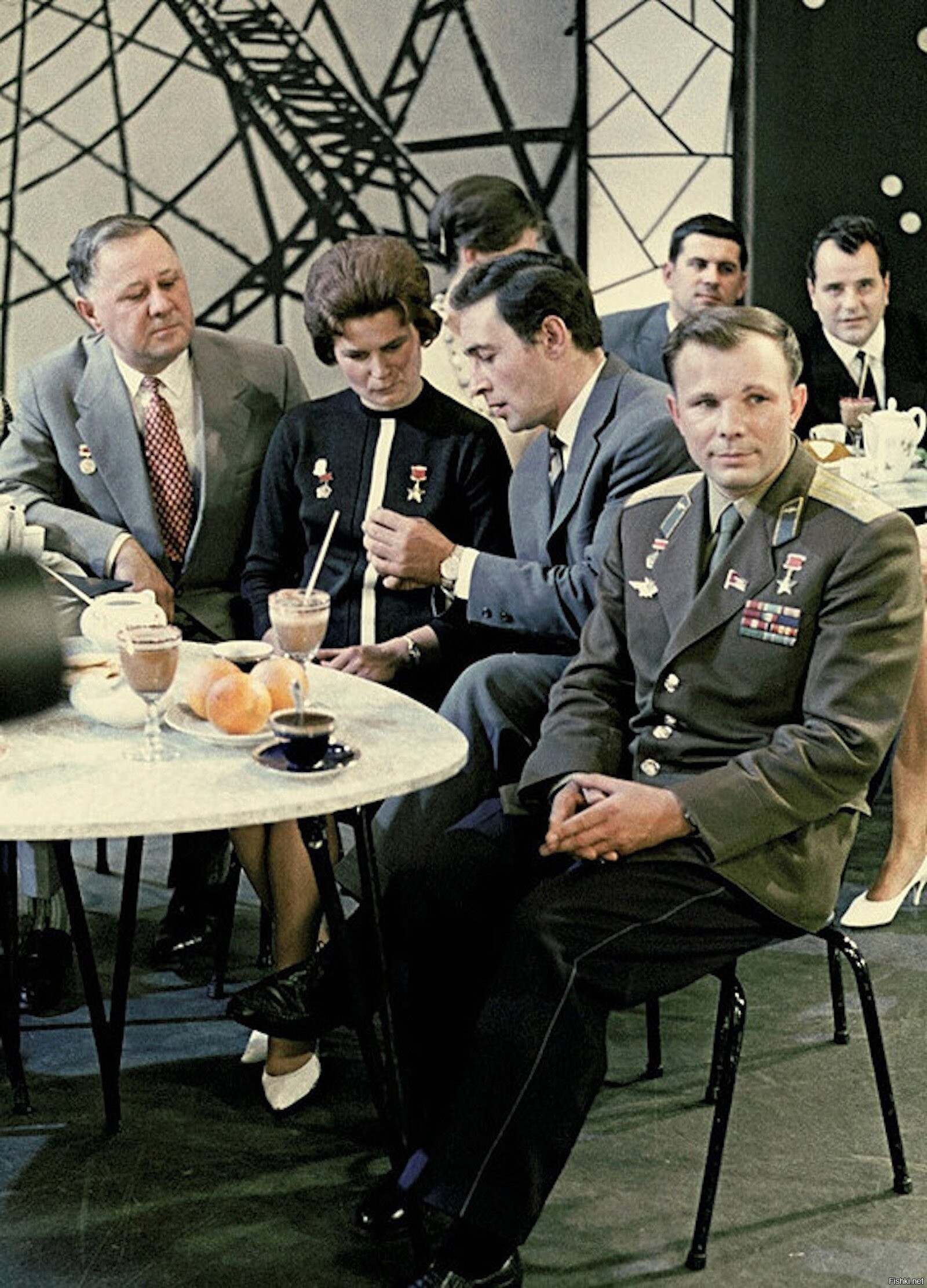 “Gagarin, Tereshkova, Tikhonov and Lyubeznov”. Guests of the Central TV Studio (right to left): Yuri Gagarin, actor Vyacheslav Tikhonov, Hero of the Soviet Union Valentina Tereshkova and people's artist of the USSR Ivan Lyubeznov.